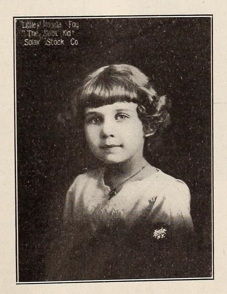 A picture of Magda Foy from an issue of Moving Picture News published in 1911.